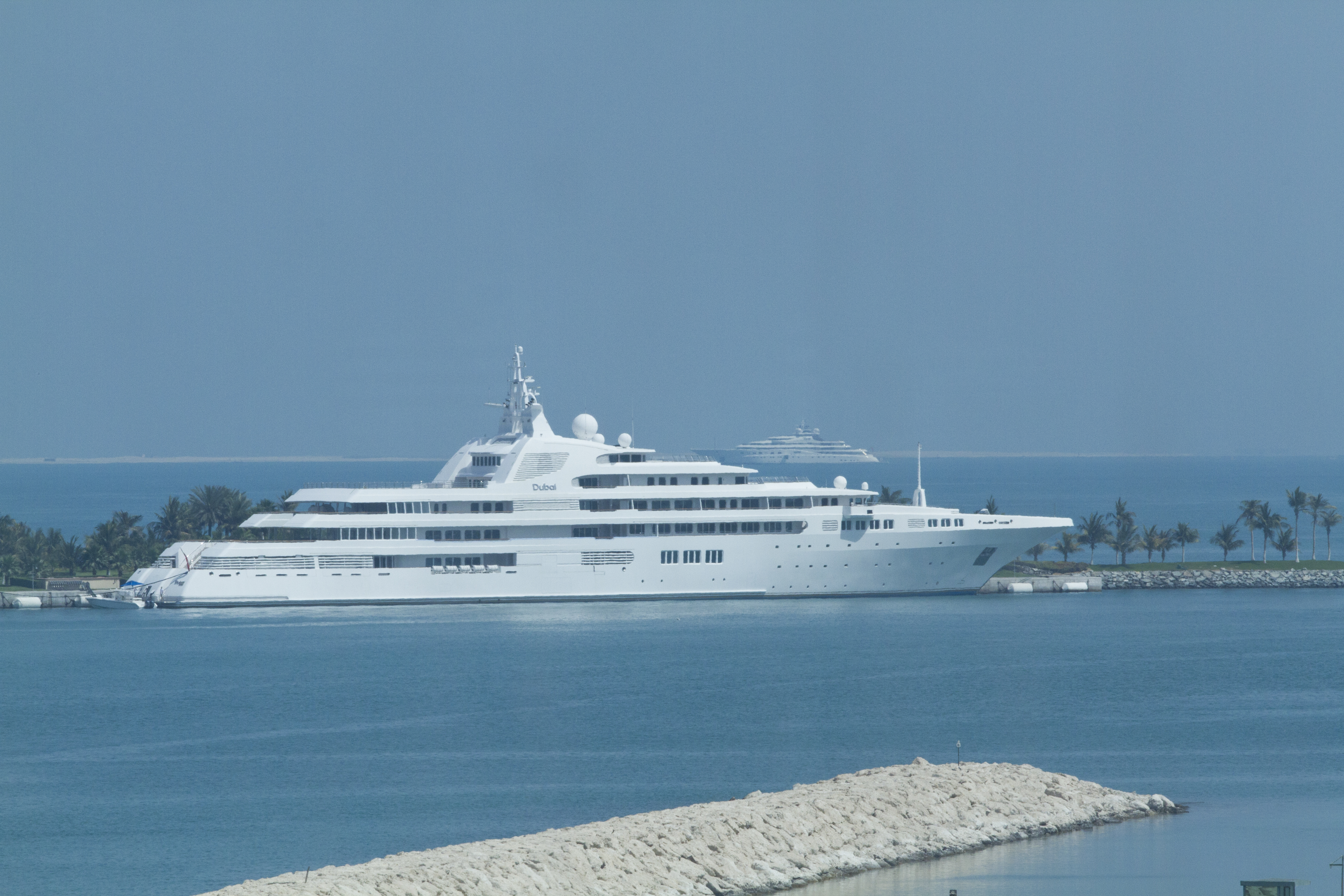 The royal yacht, Al Sufouh - Dubai - United Arab Emirates